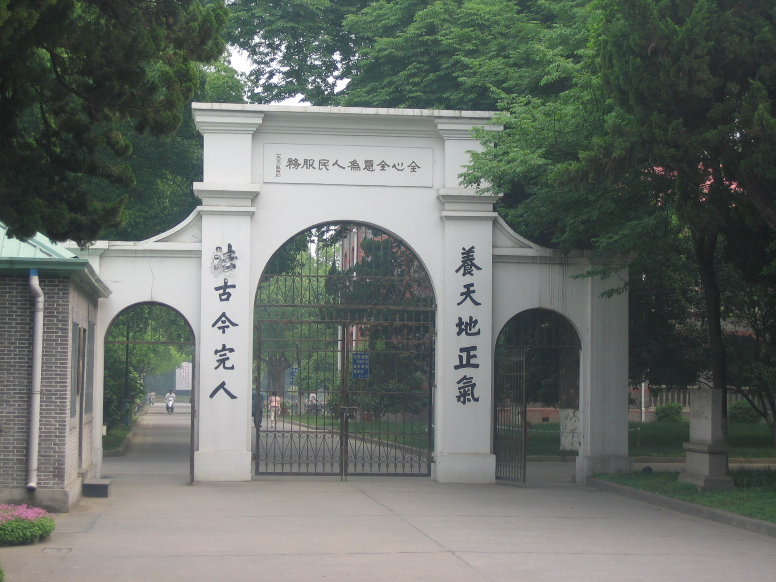 Old SooChow Univ Gate in Suzhou